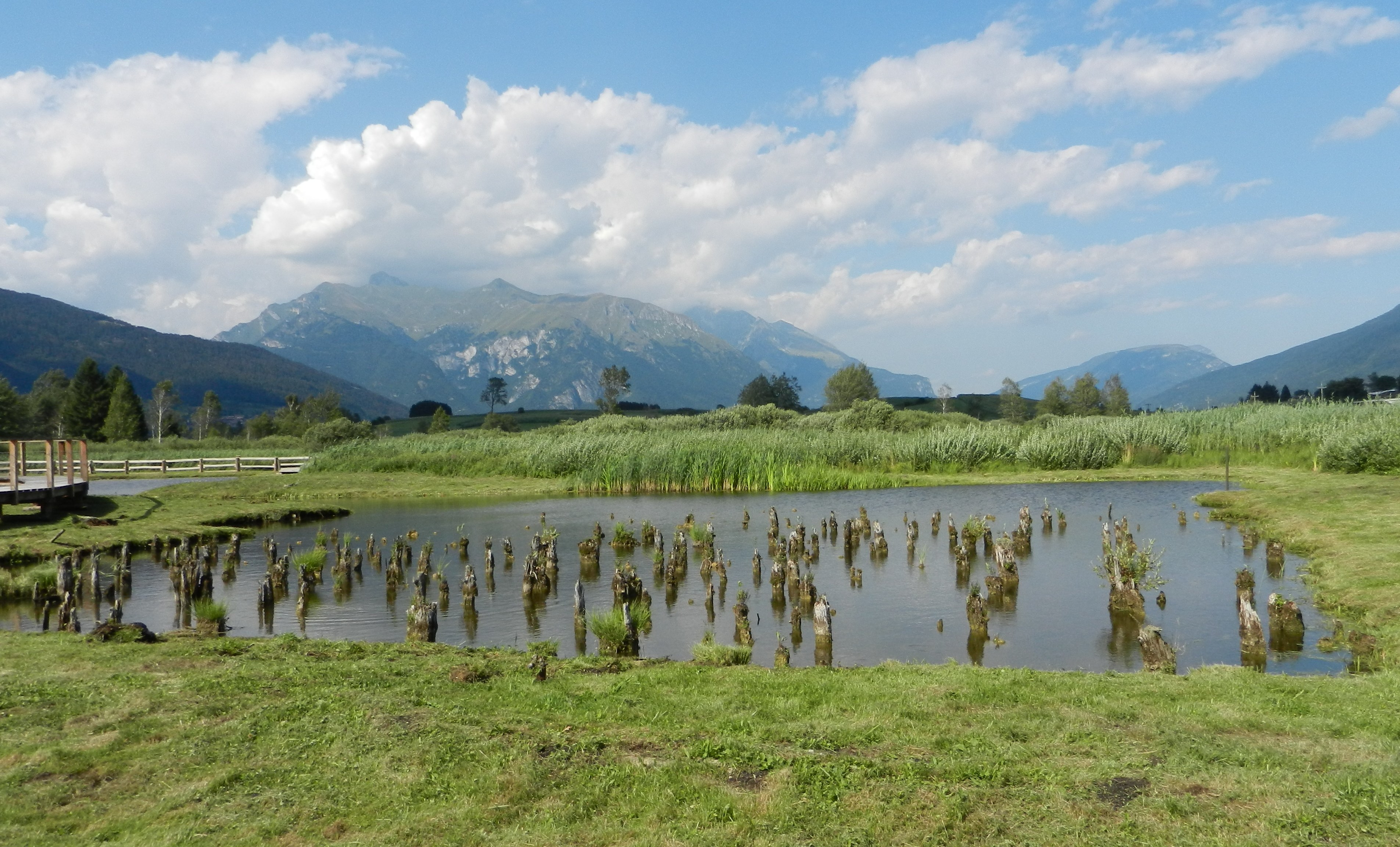 Ruines of the slit houses in Biotope of Fiavé.